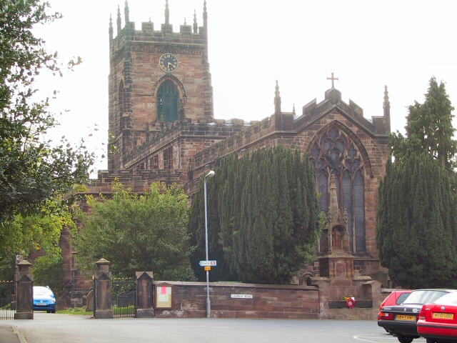 St.Michael and All Angels Church, Penkridge. Set back from the main road, it is nonetheless quite visible due to its high clock tower.